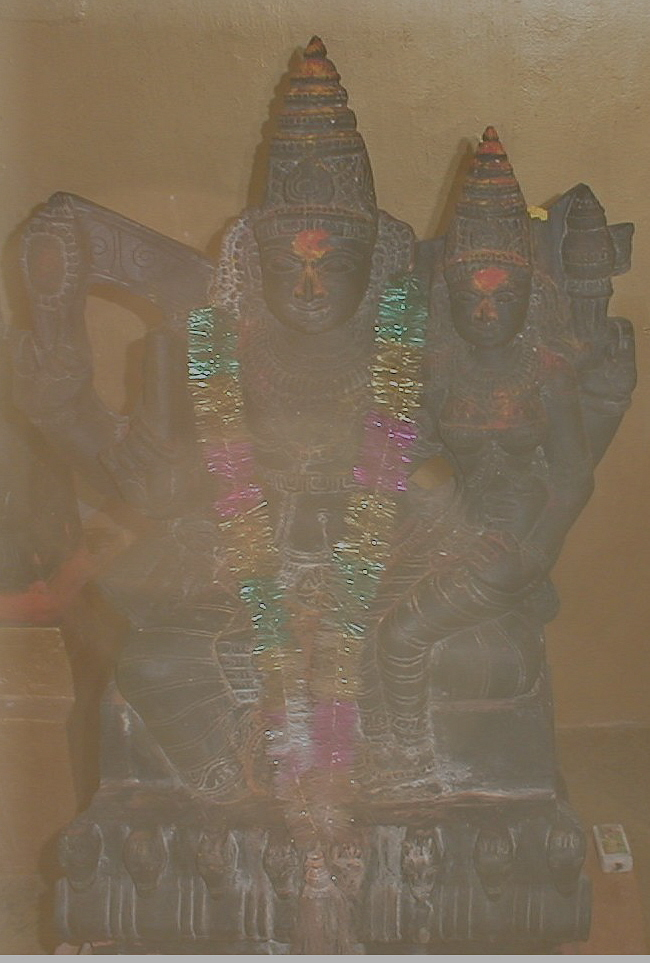 Surendrapuri Temple's Navagraha Temples, Guru with Tara